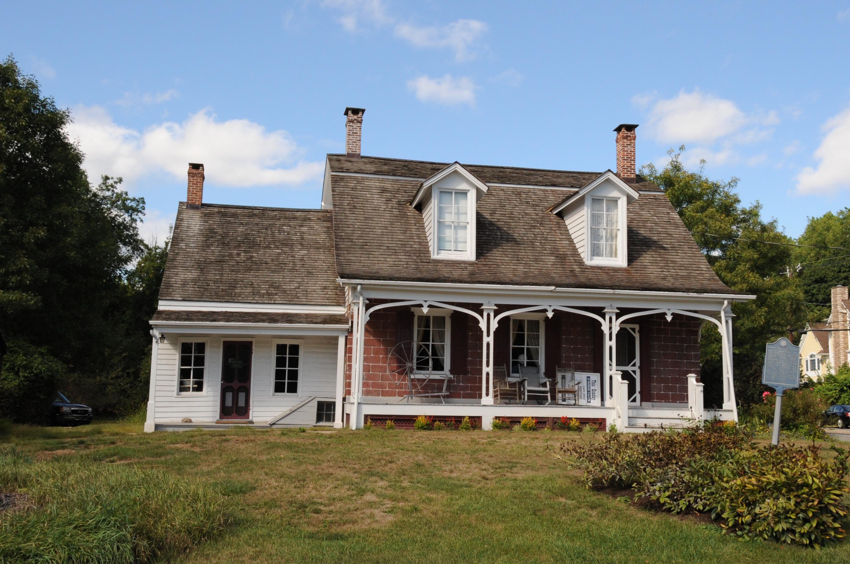 ABRAHAM HOPPER BUILT THE ORIGINAL PORTION IN 1739 AND THE REST WAS BUILT IN LATE 18TH CENTURY. STEPHEN GOETSCHIUS BOUGHT THE HOUSE IN 1813 AND HE WAS THE PASTOR OF THE OLD STONE CHURCH. THE HOUSE NOW BELONGS TO THE BOROUGH WHICH HAS MADE AN OPEN AIR MUSEUM BY THE IMPORTATION OF OTHER HISTORIC STRUCTURES